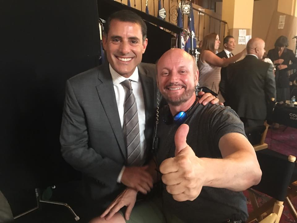 Template:OTRS pending/LANGCODE